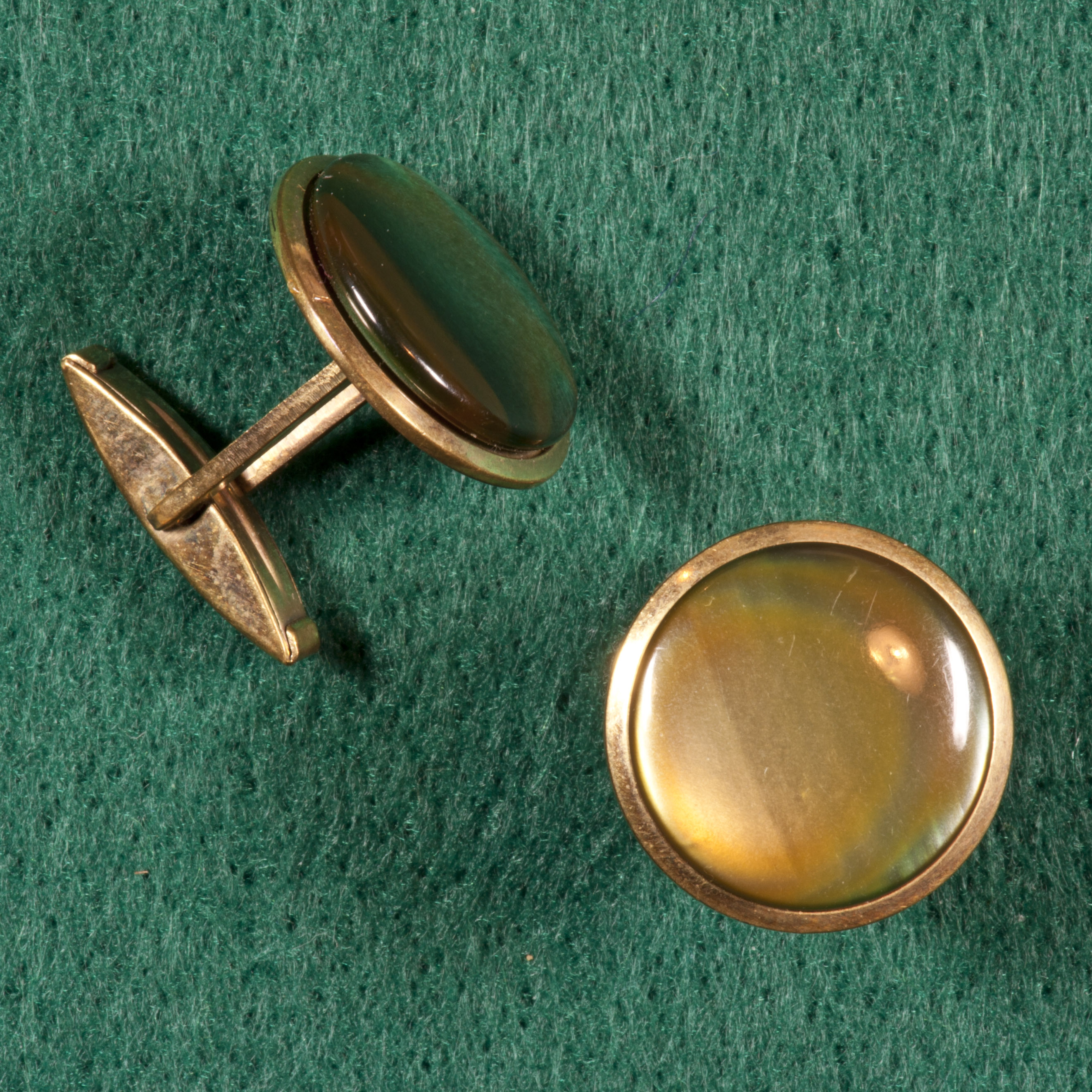 Cufflinks